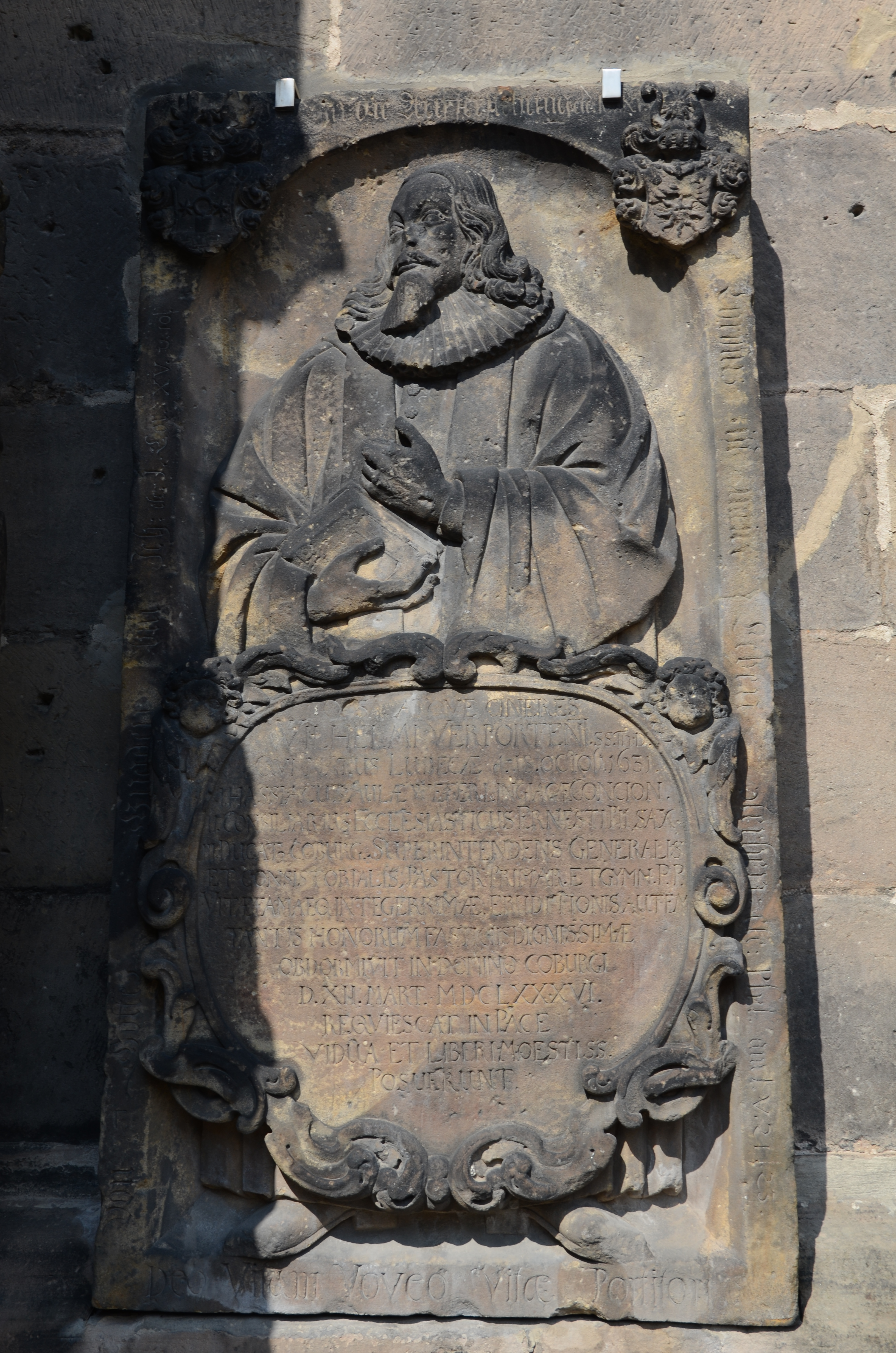 evang.-luth. Moritzkirche in Coburg, Epitaph